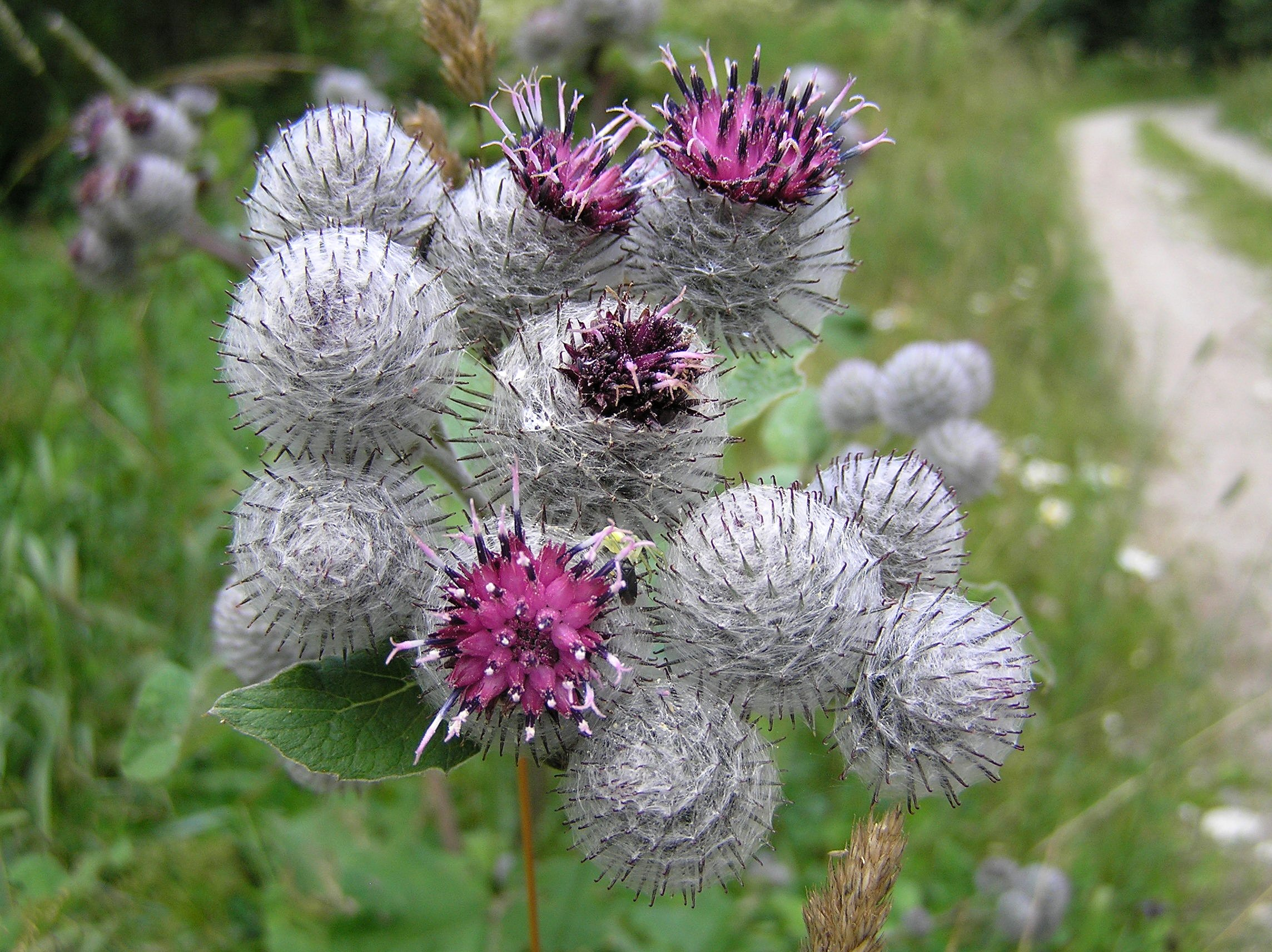 Burdock – Arctium tomentosum